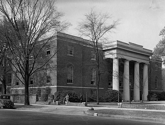 University of South Carolina, Library, South Sumter Street, Columbia (Richland County, South Carolina) cropped Now known as the South Caroliniana Library This file comes from the Historic American Buildings Survey (HABS), Historic American Engineering Record (HAER) or Historic American Landscapes Survey (HALS). These are programs of the National Park Service established for the purpose of documenting historic places. Records consist of measured drawings, archival photographs, and written reports. When reusing please credit: Library of Congress, Prints & Photographs Division, SC,40-COLUM,2A-1 This tag does not indicate the copyright status of the attached work. A normal copyright tag is still required. See Commons:Licensing for more information. English | +/− This work is in the public domain in the United States because it is a work prepared by an officer or employee of the United States Government as part of that person’s official duties under the terms of Title 17, Chapter 1, Section 105 of the US Code. See Copyright. Note: This only applies to original works of the Federal Government and not to the work of any individual U.S. state, territory, commonwealth, county, municipality, or any other subdivision. This template also does not apply to postage stamp designs published by the United States Postal Service since 1978. (See § 313.6(C)(1) of Compendium of U.S. Copyright Office Practices). It also does not apply to certain US coins; see The US Mint Terms of Use. This file has been identified as being free of known restrictions under copyright law, including all related and neighboring rights.